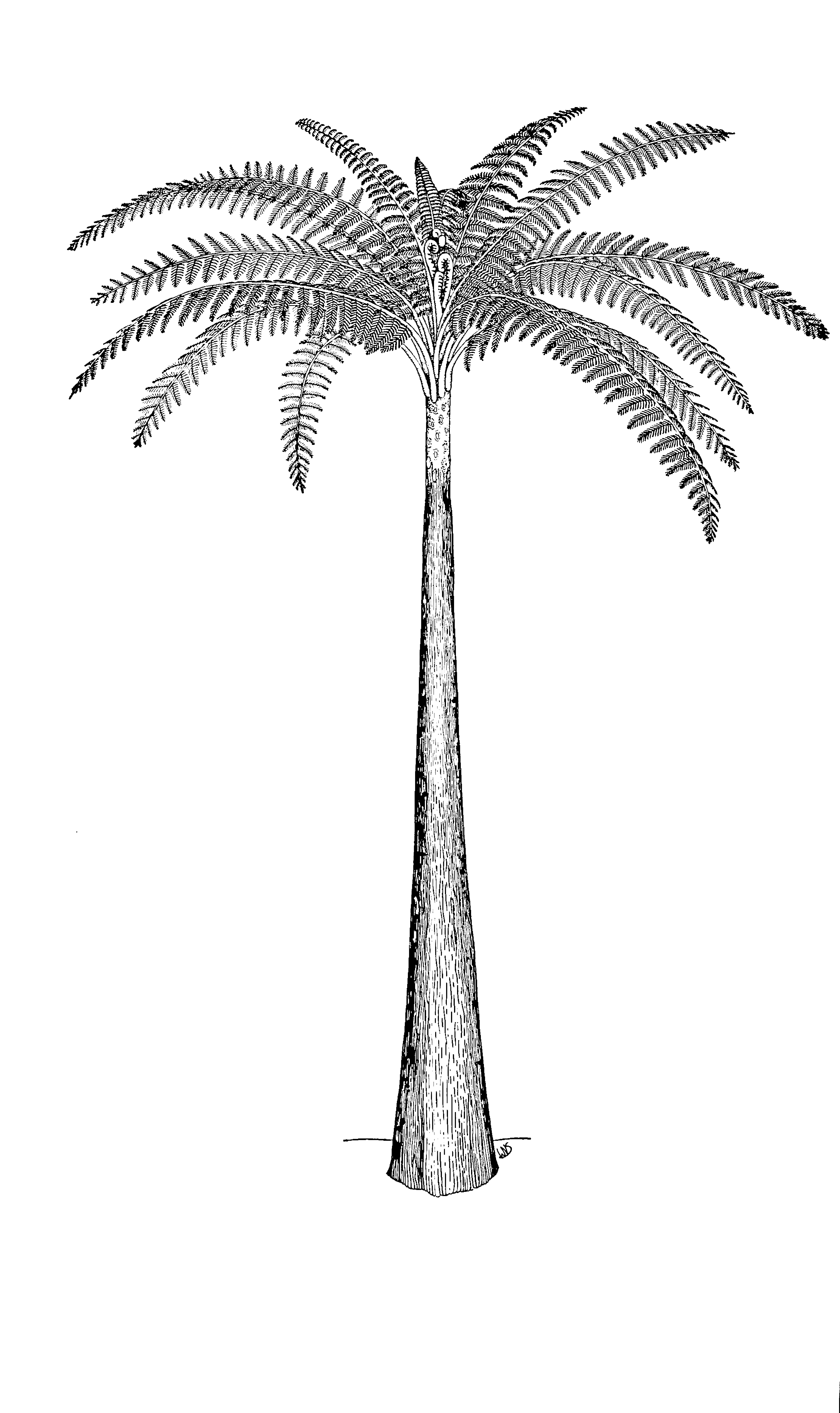 Reconstruction of a psaroniaceous tree fern showing Caulopteris features in leaf scar arrangement (spiral arrangement). This reconstruction is based on a plant approxi- mately 20 to 25 feet tall.